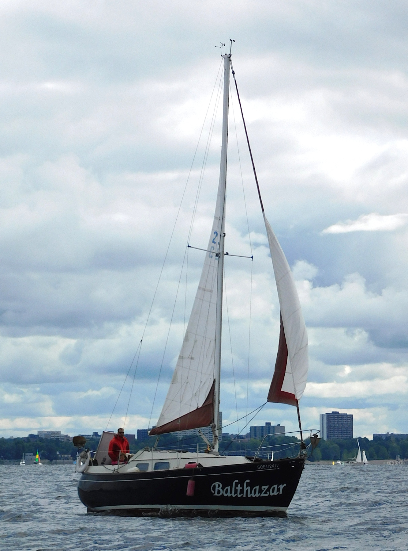 A Halman Horizon sailboat named Balthazar.